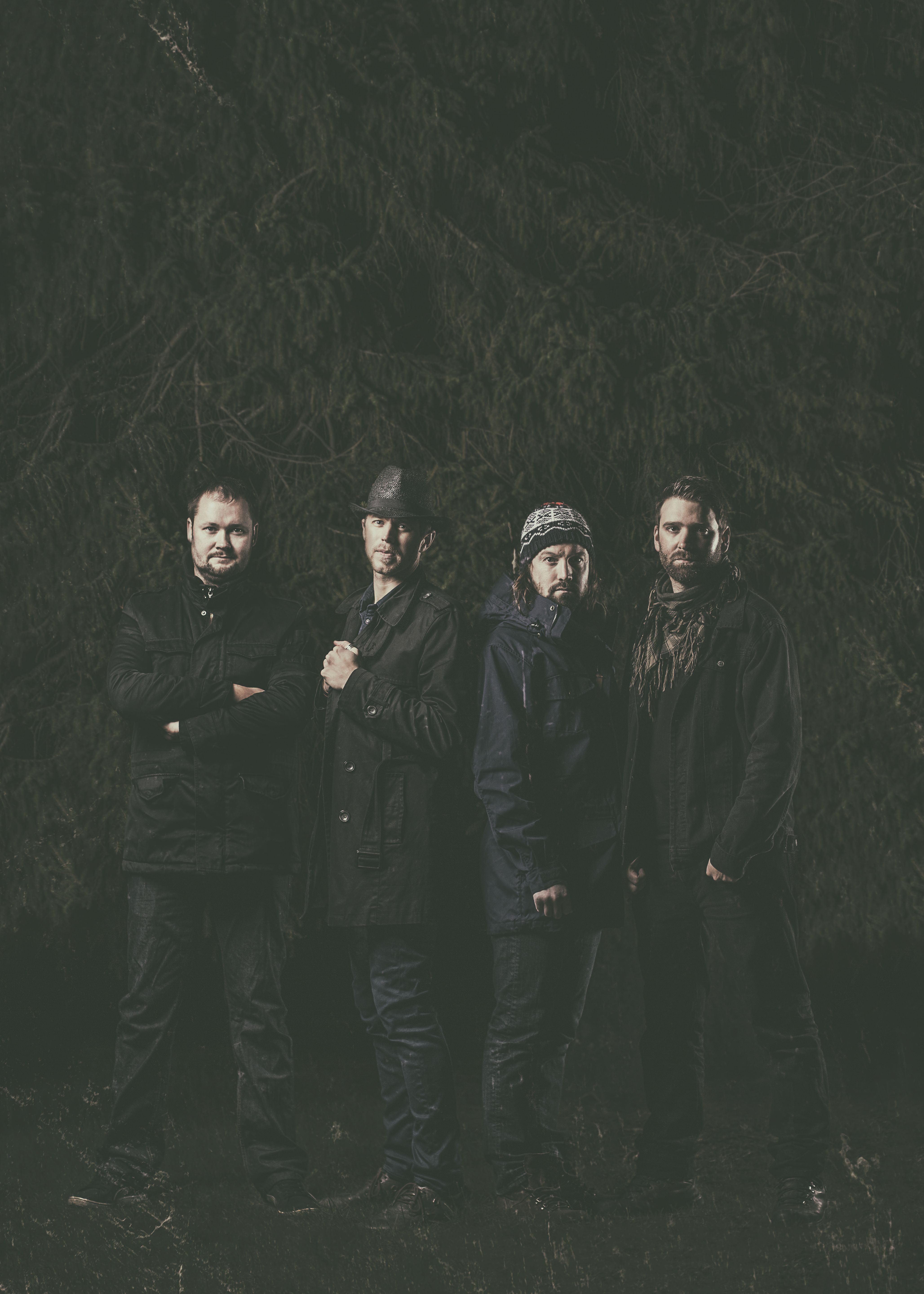 The Norwegian rock band Lionhorse, based in Trondheim. Left to right: Håvard Ophaug (guitar), Eirik Lian (vocal/guitar), Inge Hanshus (drums), Mads Saurstrø (bass).